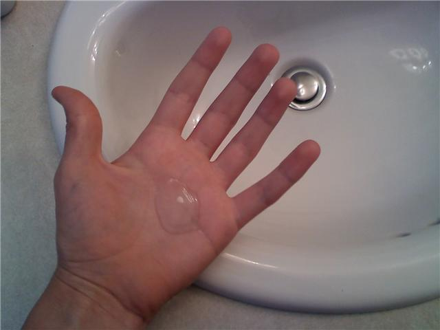 Liquid antibacterial soap on a person's hand.